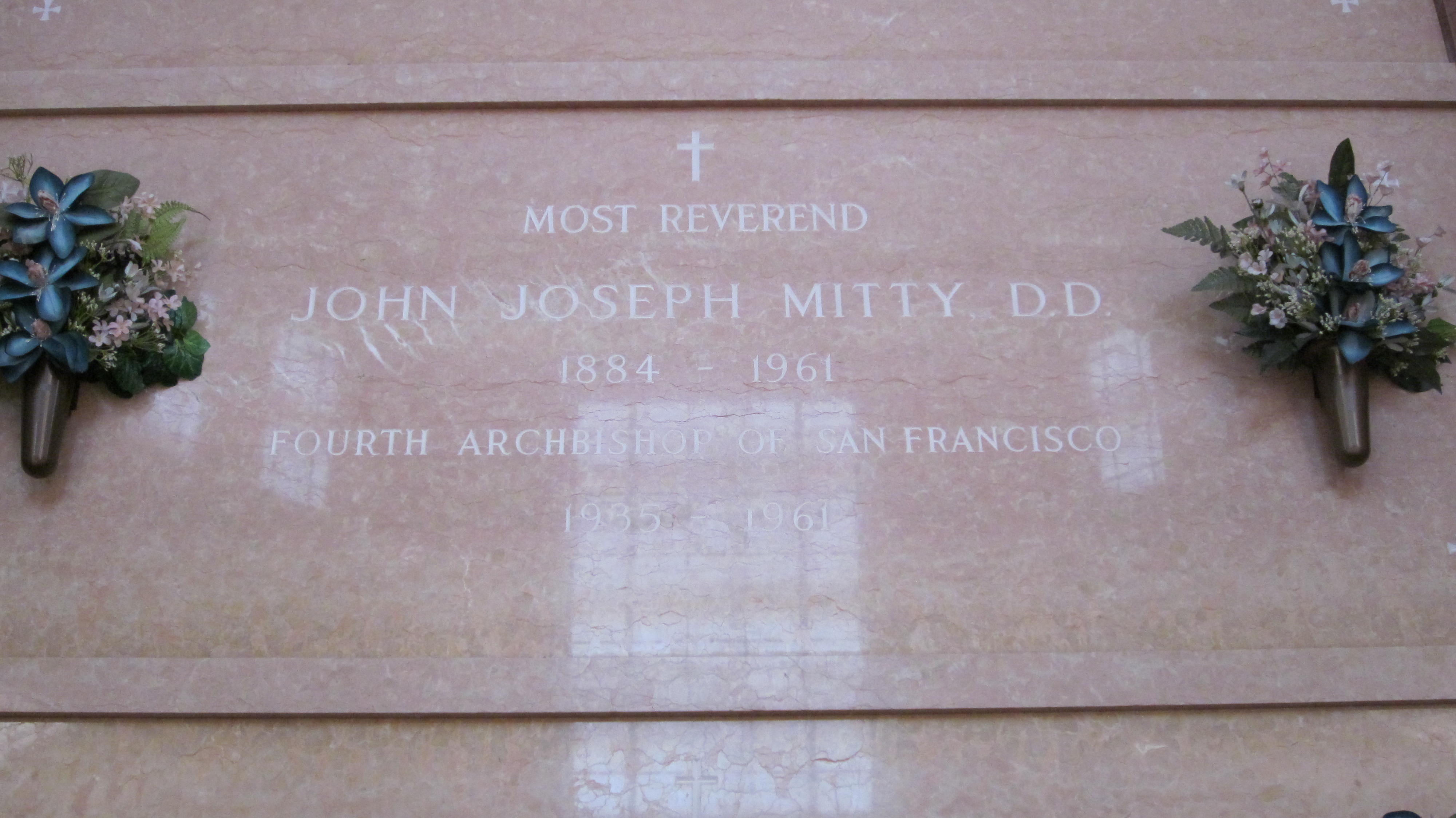 The vault of Archbishop John Mitty in the Holy Cross Mausoleum at Holy Cross Cemetery in Colma, California.